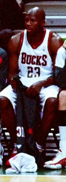 Bradley Center 11/18/2006